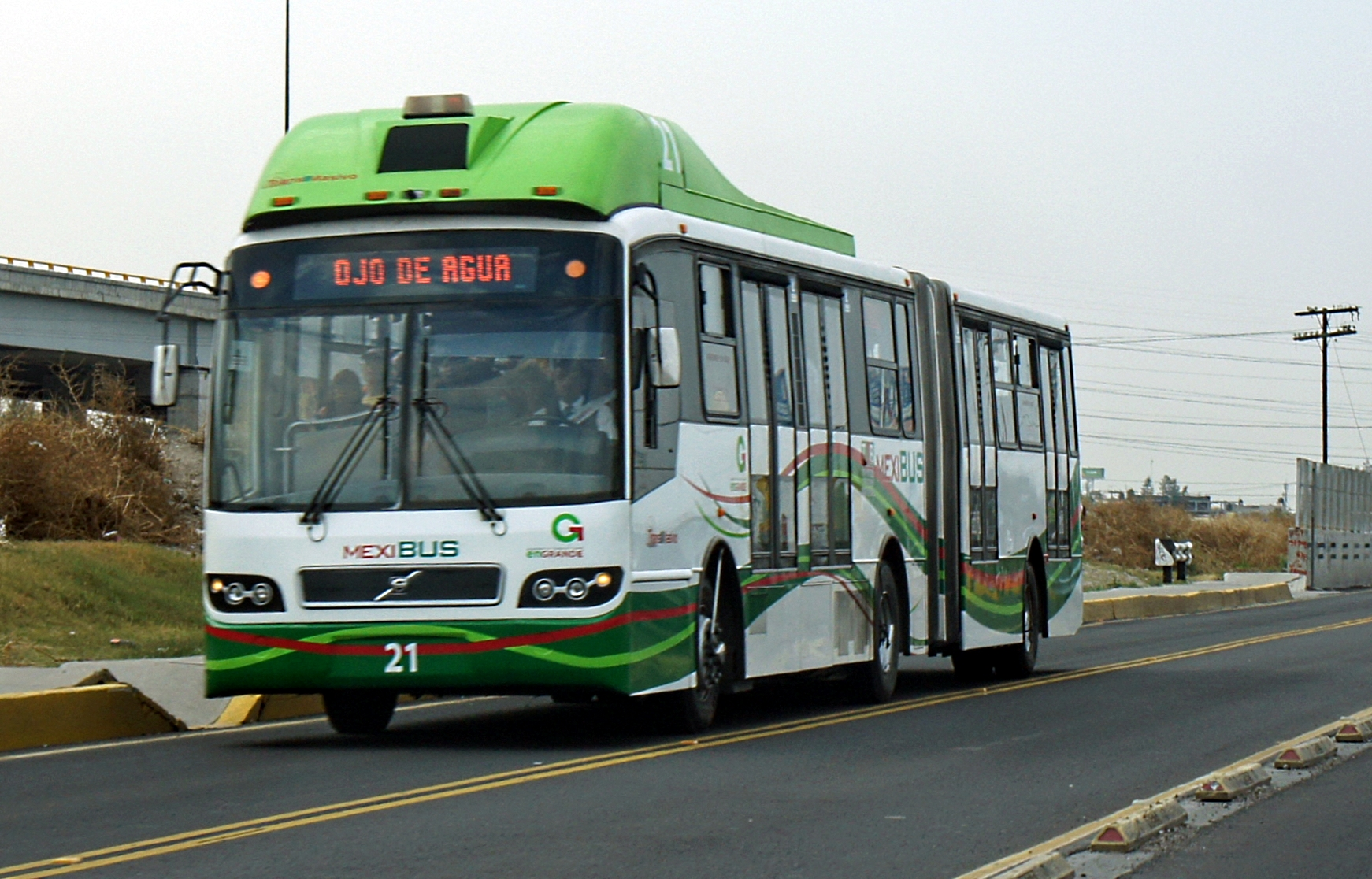 State of México Mexibus BRT, Greater México City Metropolitan Area